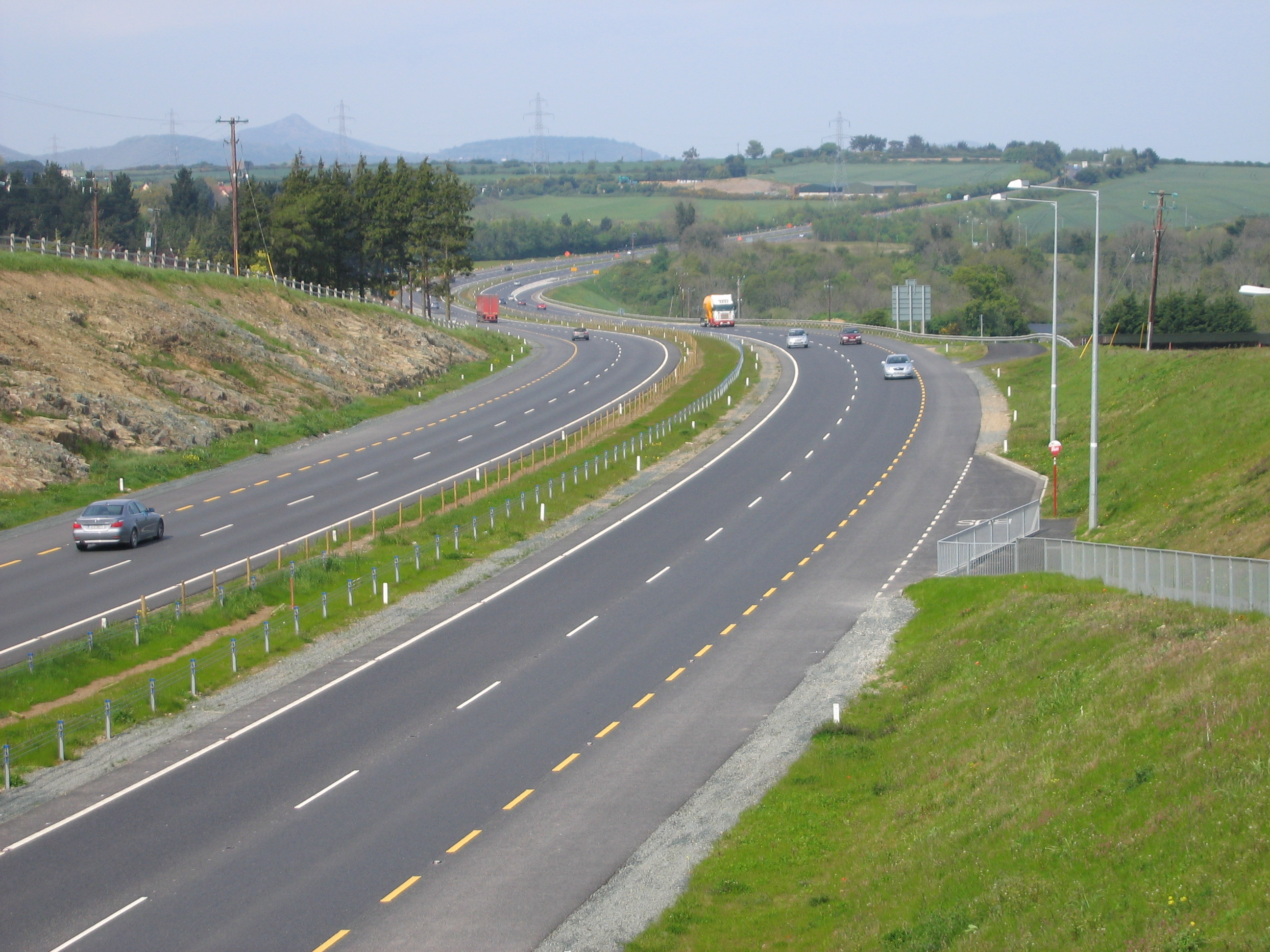 N11 road south of Newtownmountkennedy, This photo appeared in an article in the Roscommon People weekly local newspaper in an article by Paul Healy €84m Rooskey/Dromod project bypasses sentiment!; edition of 14 December, 2007 - Sarah777 (talk) 23:32, 14 December 2007 (UTC)